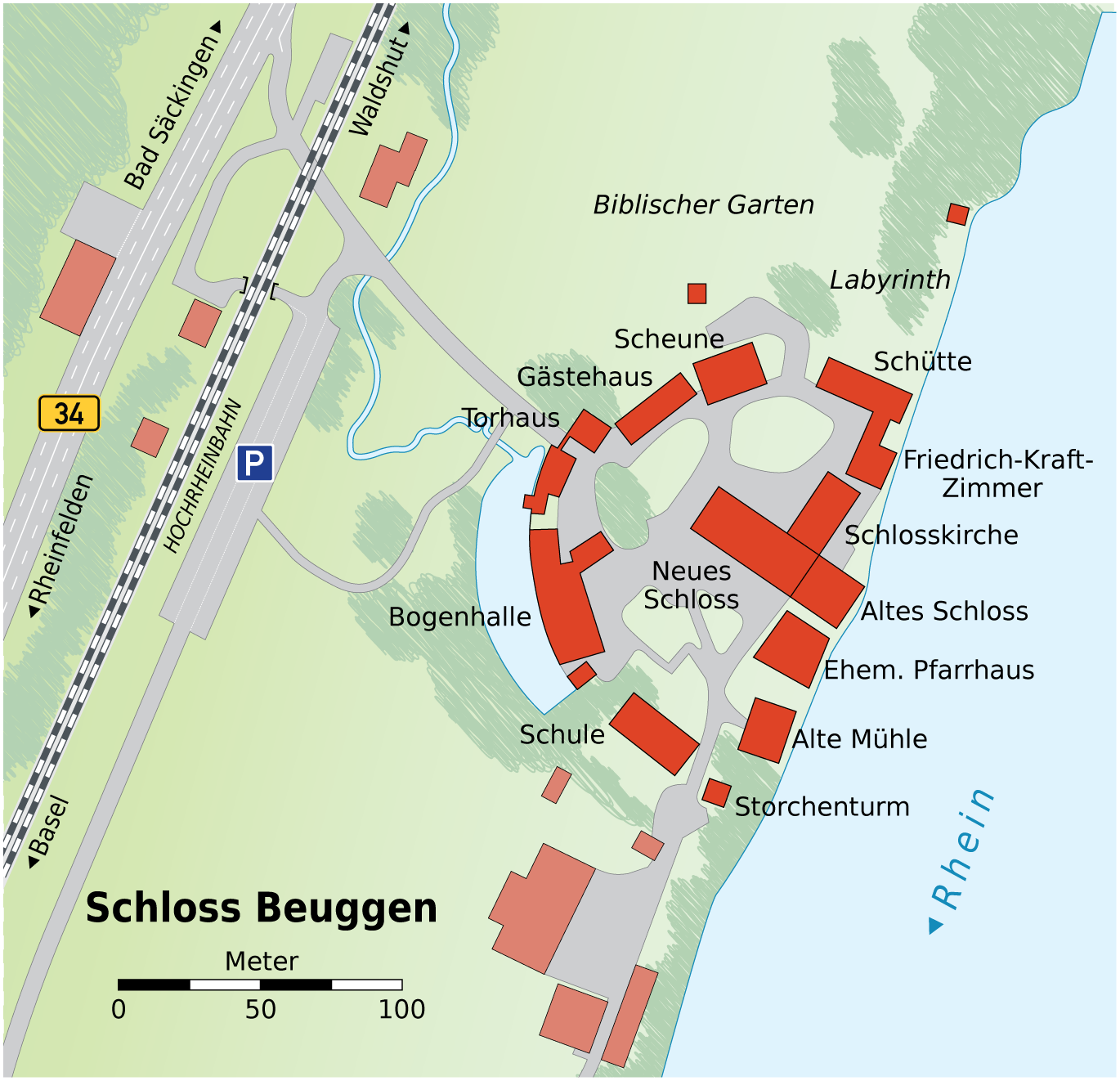 Map of Schloss Beuggen